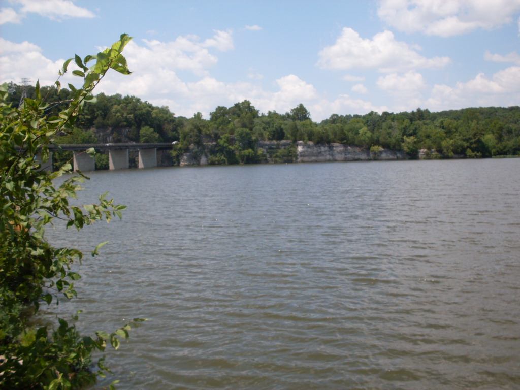 Image shows the bluff and roadway above the dam of Lake Springfield. The view was taken looking to the north from public access point below the power station.